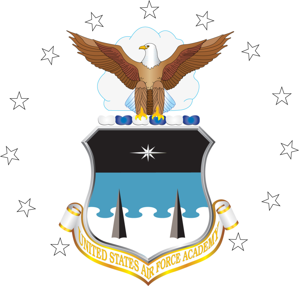 Emblem of the United States Air Force Academy, a Direct Reporting Unit of the United States Air Force